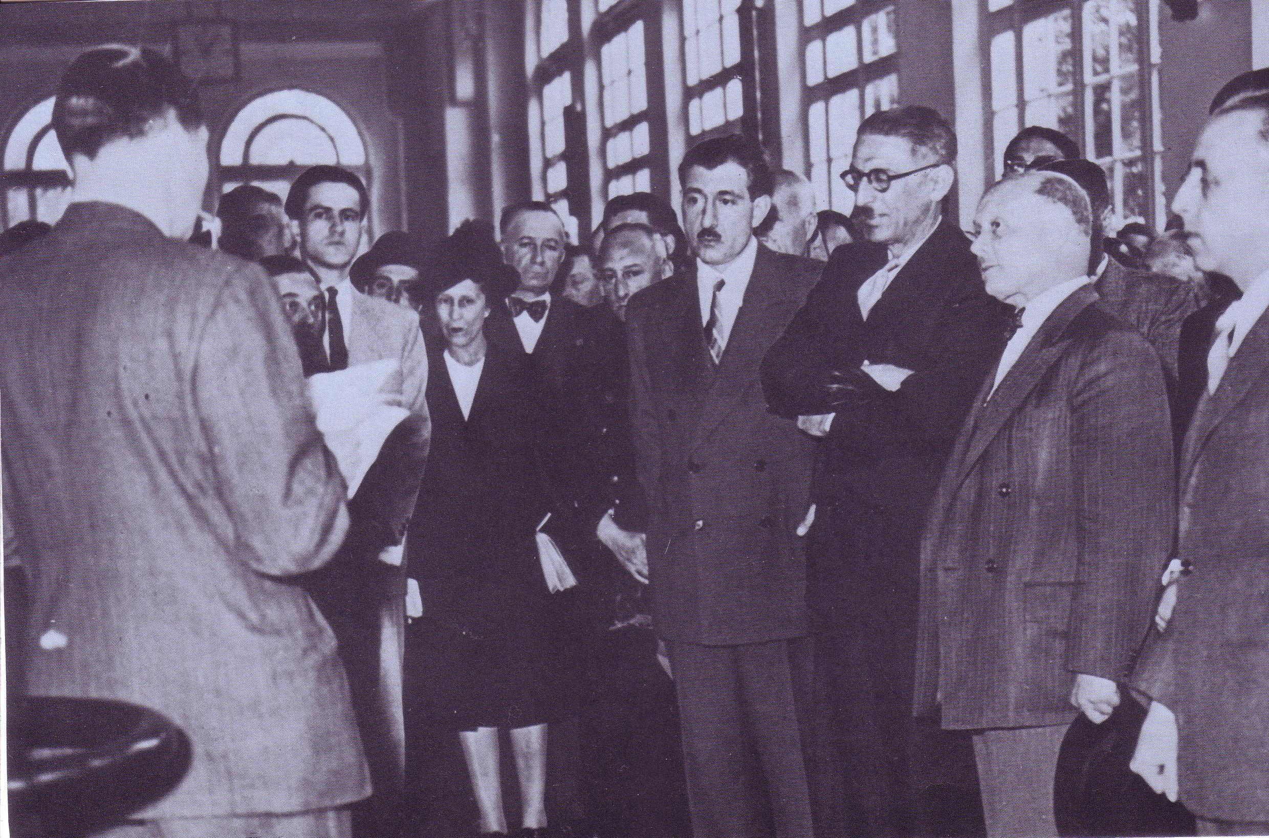 The inauguration of the Aérogare des Invalides on 21 August 1951 with, from left to right, Mrs. Jules Moch, Max Hymans, Jules Moch, Mr. Le Troquer, and Mr. Costa de Beauregard.